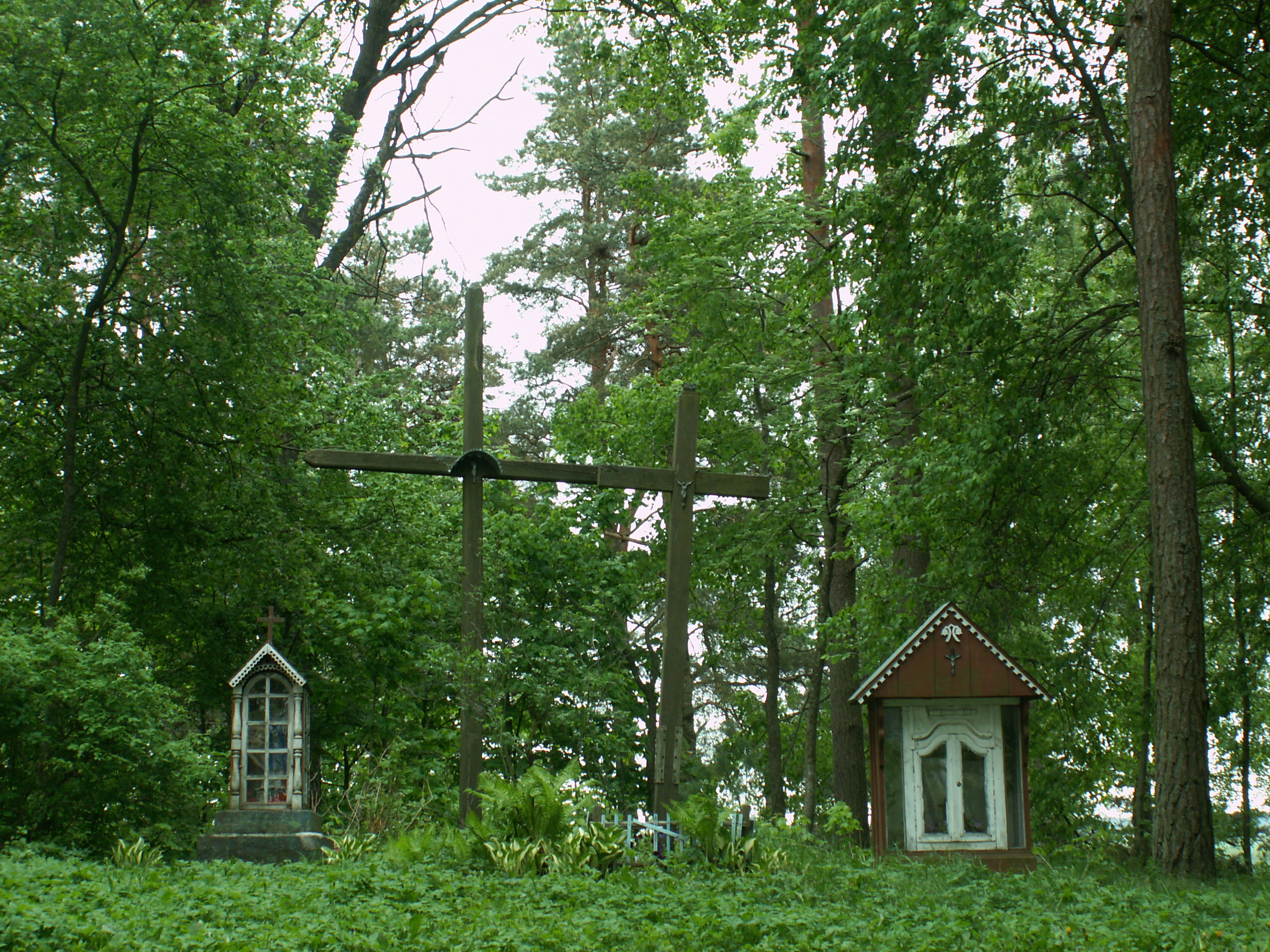 Naujoji Įpiltis, Kretinga district, Lithuania